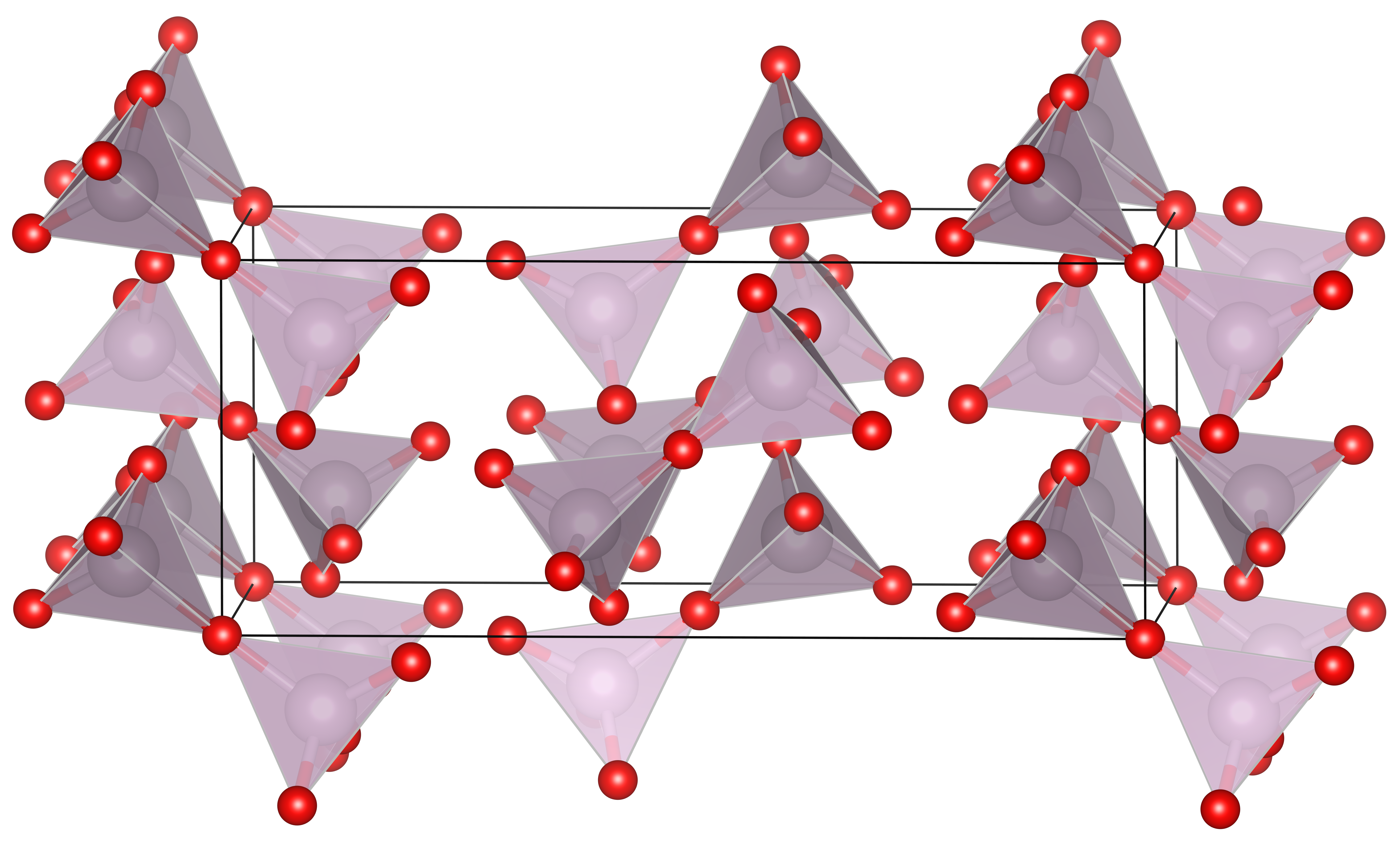 Crystal structure of technetium(VII) oxide. Created with VESTA. Source of the crystal structure